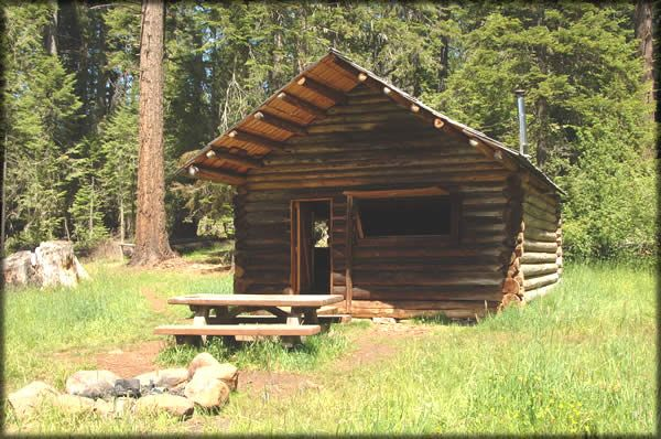 Front view of Willow Prairie Cabin, located in Rogue River National Forest, Jackson, County, Oregon